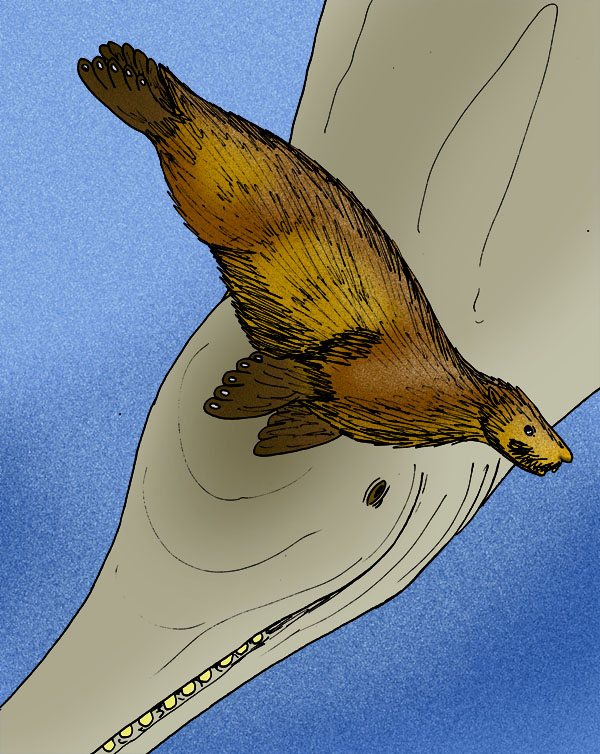 Reconstruction of the primitive seal Enaliarctos emlongi, of Miocene California, in comparison with the head of the whale, Macrodelphinus (C) Stanton F. Fink